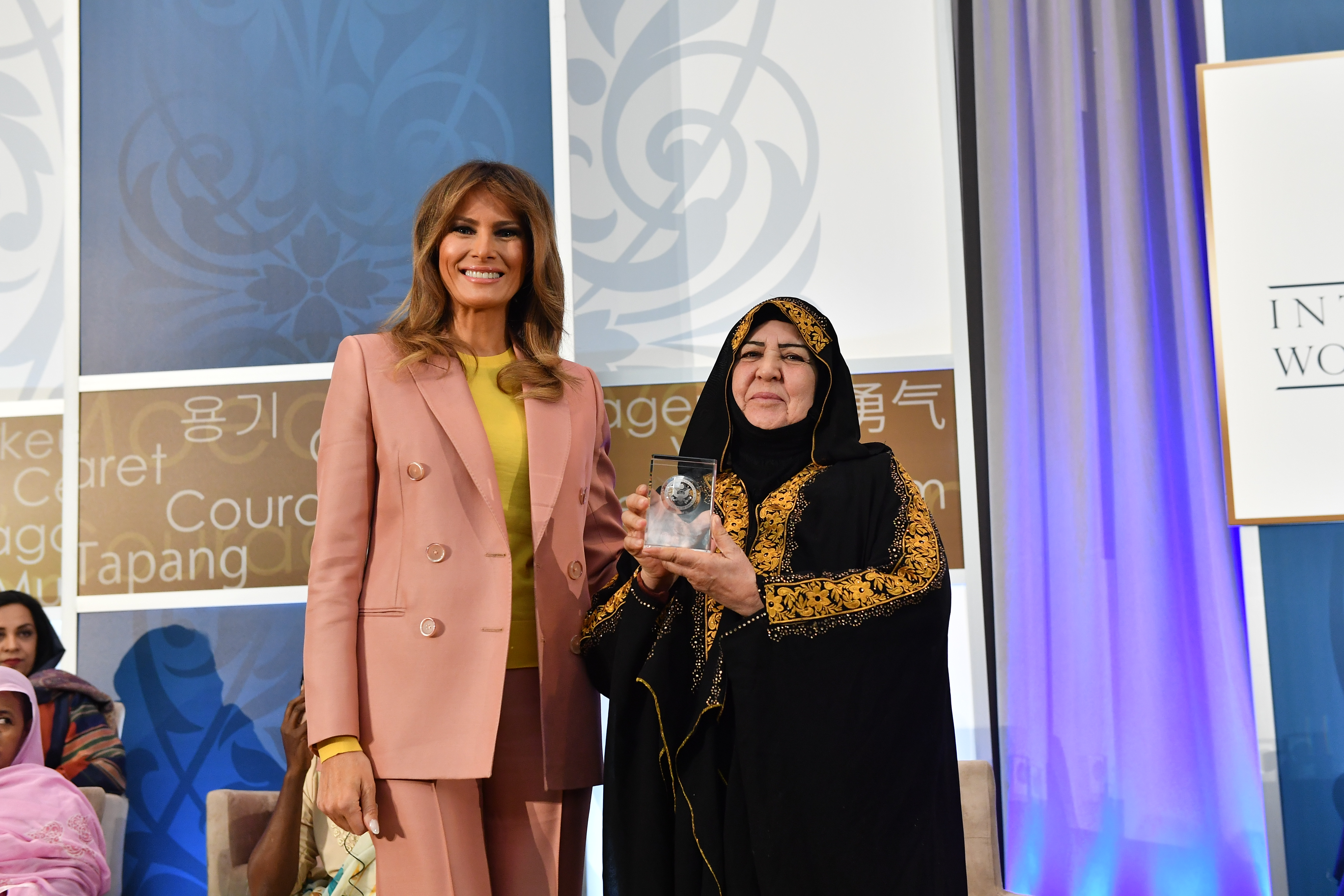 "First Lady Melania Trump Presents the 2018 IWOC Award to Aliyah Khalaf Saleh of Iraq First Lady of the United States Melania Trump presents the 2018 International Women of Courage (IWOC) Award to Aliyah Khalaf Saleh of Iraq during a ceremony at the U.S. Department of State in Washington, D.C. on March 23, 2018."